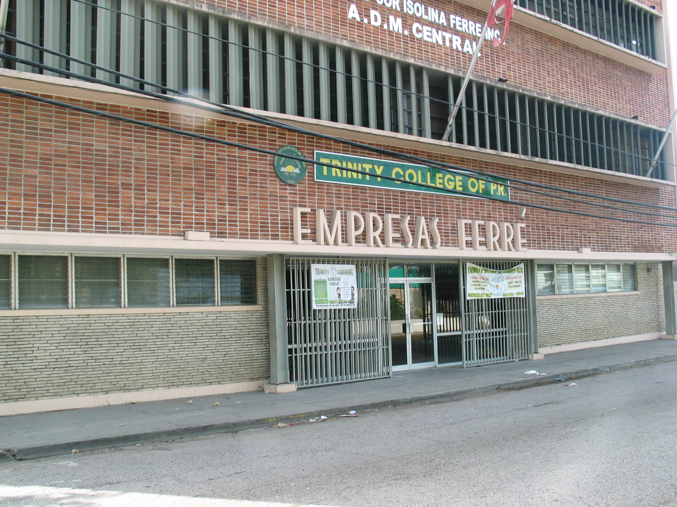 Edificio Empresas Ferré, the Puerto Rico Iron Works administration building in Barrio Playa, Ponce, Puerto Rico, occupied by Trinity College of Puerto Rico as of the photo date.